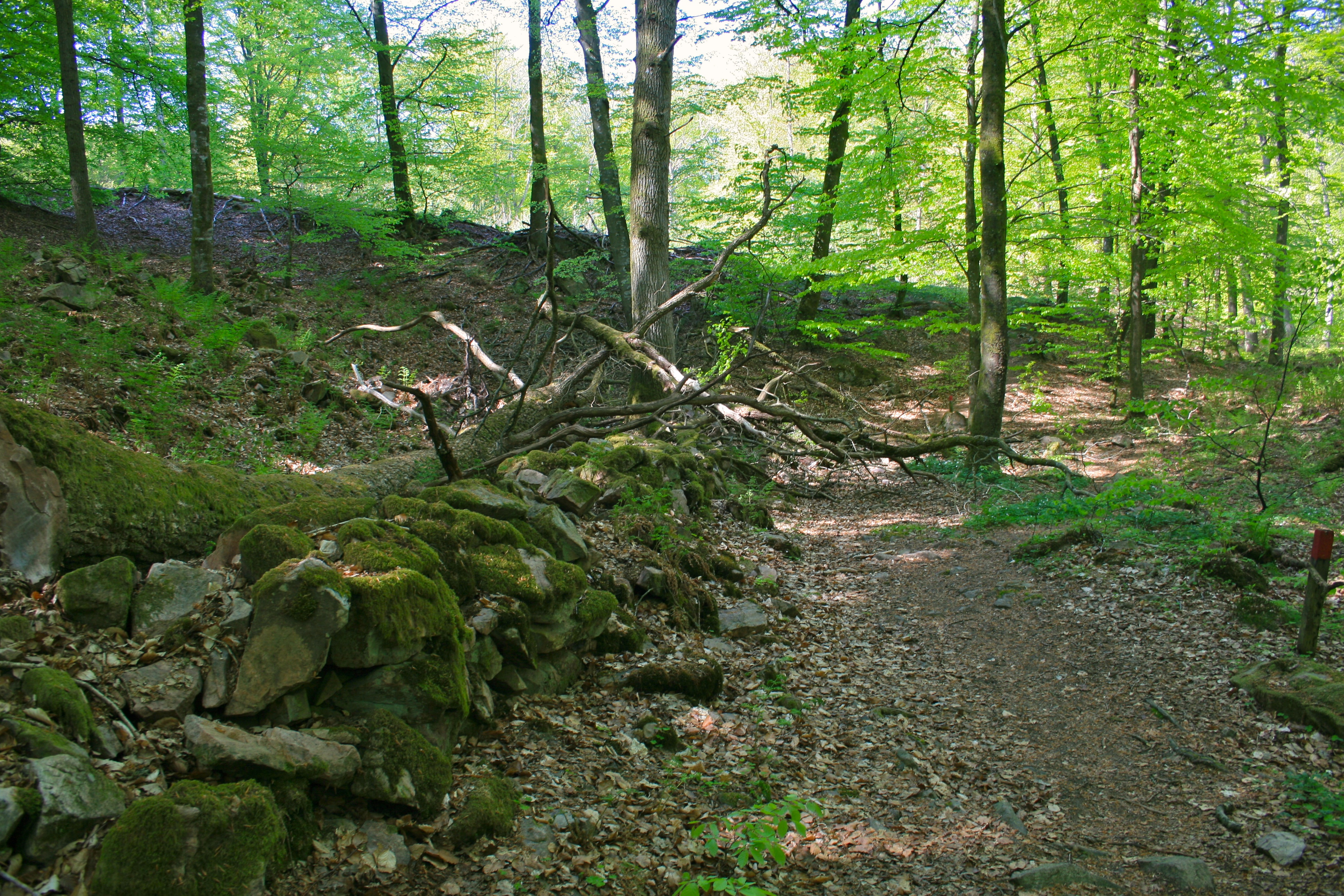 An old wall, close to Odensjön in Söderåsen National Park